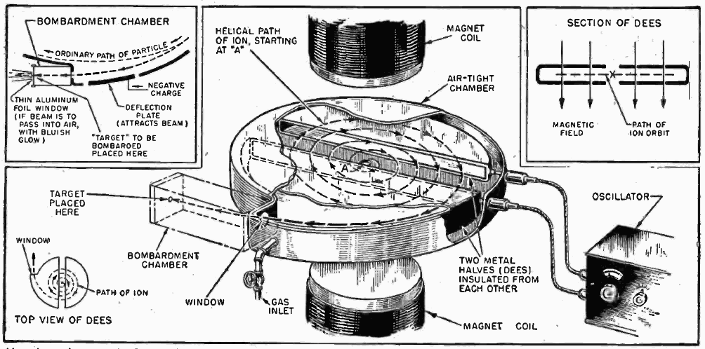 Diagram of a cyclotron, a particle accelerator invented by Earnest O. Lawrence in 1932 and widely used from the 1930s to the 1950s. It consists of a pair of "D" shaped sheet metal electrodes called "Dees" placed face to face inside a vacuum chamber, between the poles of an electromagnet. An oscillating radio frequency voltage of several thousand volts is applied to the dees. Atomic particles to be accelerated, such as protons are released in the center. The magnetic field causes them to travel in a spiral path from the center to the rim of the dees, being accelerated each time they pass from one electrode to the other. When the particles reach the rim they pass out of the dees through a small gap and strike a target. In this diagram the electromagnet pole pieces are not shown full size; they must be at least as big as the dees to create a uniform field. Caption: How the cyclotron works. Size of the magnets has been kept down to show the path of the electron